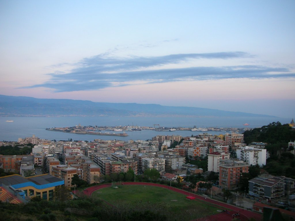 Port view from the hill